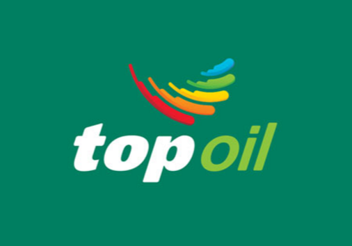 The official logo of TOP Oil, an Irish oil company.